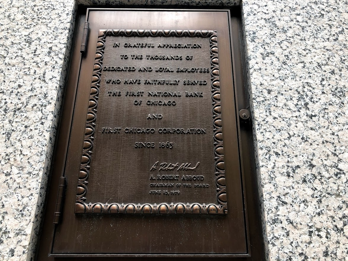 This plaque is located below the First National clock at Exelon Plaza, next to Chase Tower